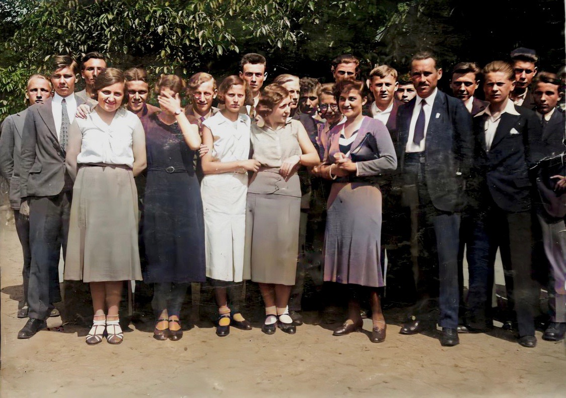 Grammar School Bučovice – students graduation class year 1932 with Professor Antonín Souček, teaching there in years 1915-1942.